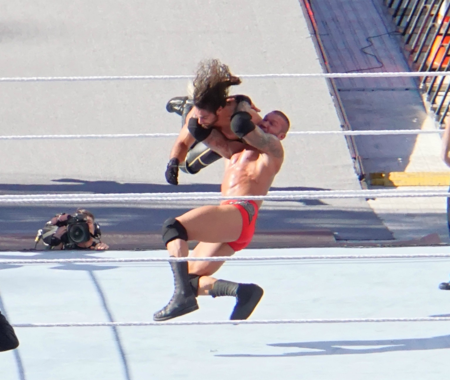 Randy Orton executing an RKO on Seth Rolling at WrestleMania 31.